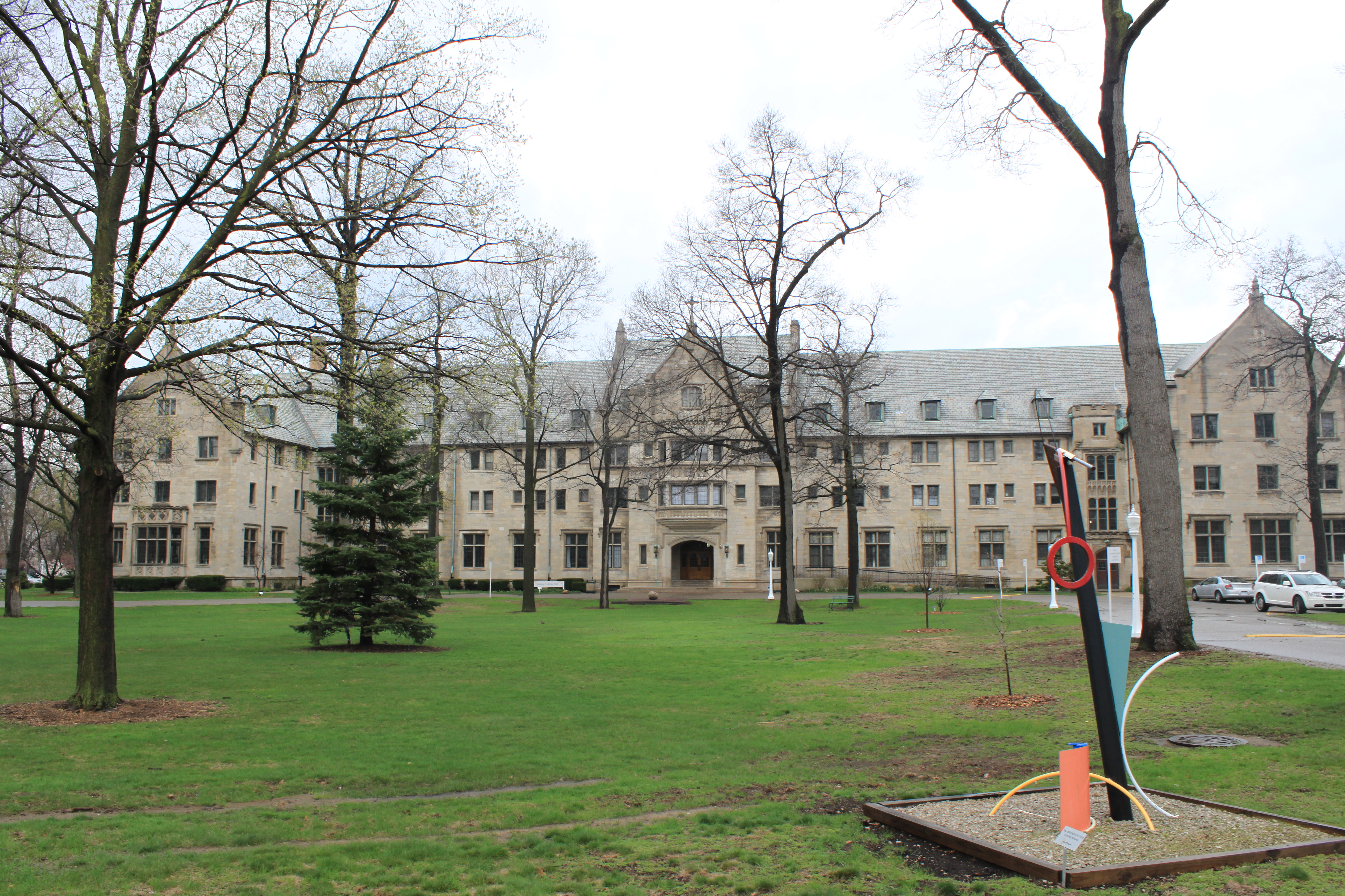 Marygrove College, Madame Cadillac Hall, 8425 West McNichols, Detroit, Michigan